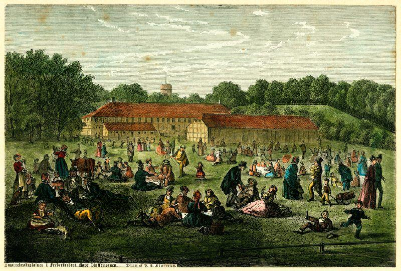 Smørrebrødsplænen i slotshaven. I baggrunden slottets kavalerbygning (Staldgården)